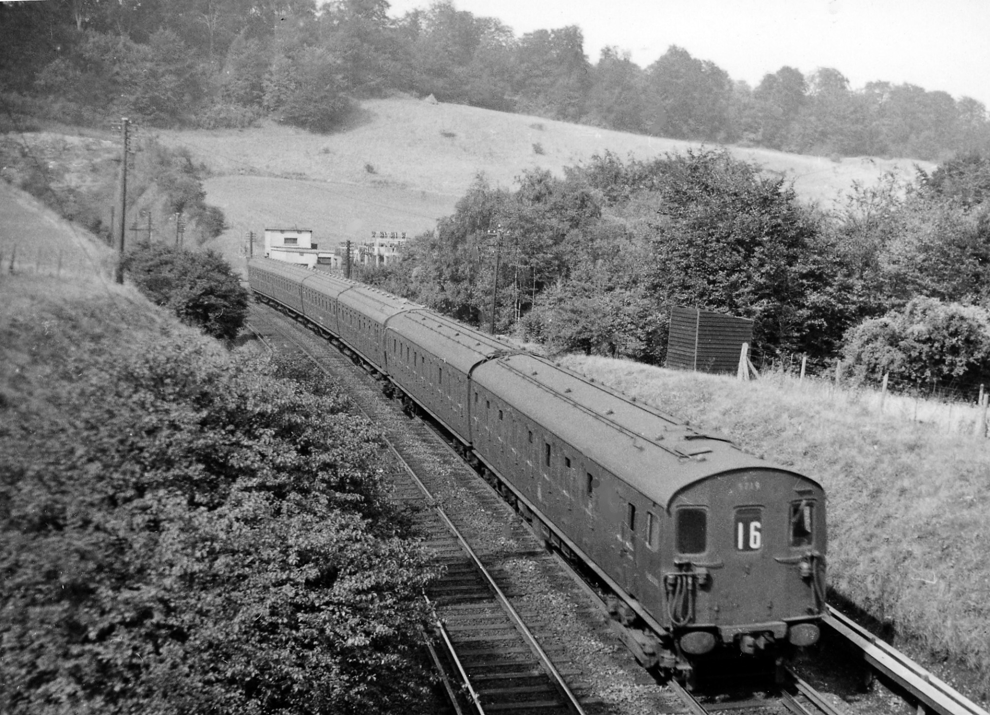 Down local electric train leaving Polhill Tunnel. View northward towards Polhill Tunnel and London; ex-South Eastern Charing Cross/Cannon Street - Tonbridge - Ashford - Folkestone - Dover main line. The train is a local to Sevenoaks, formed of 2-EPB EMU's.